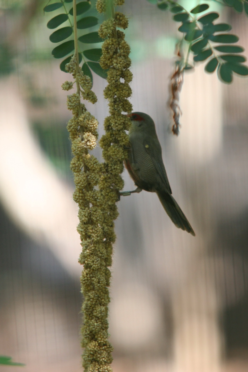 Similar species include the Black-rumped, Crimson-rumped and Black-lored Waxbills. The Black-rumped Waxbill is black rather than brown on the rump and has a pale vent (area underneath the tail). The Crimson-rumped Waxbill has a dark bill, red rump and some red on the wings and tail. The Black-lored Waxbill (found only in the Democratic Republic of Congo) has a black rather than red stripe through the eye. The Common Waxbill has a variety of twittering and buzzing calls and a distinctive high-pitched flight-call. The simple song is harsh and nasal and descends on the last note.